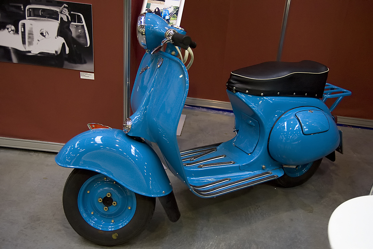 Vyatka VP-150 — the first Soviet motor scooter of production of Viatka Polyanskogo of machine building plant. Was issued from 1957 to 1966. Is a copy of the Italian motor scooter of Vespa of 150GS 1955 years.